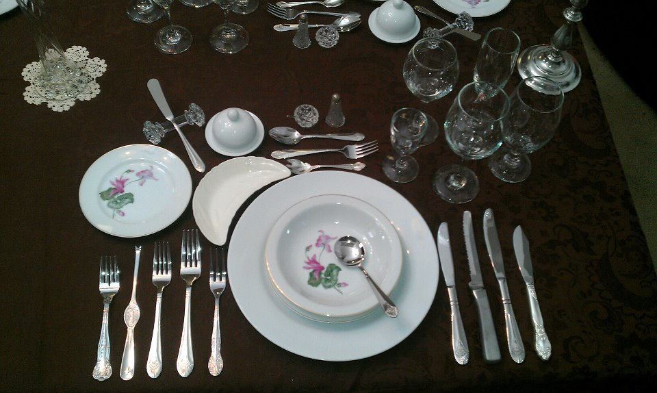 Consumme or Cream Soup